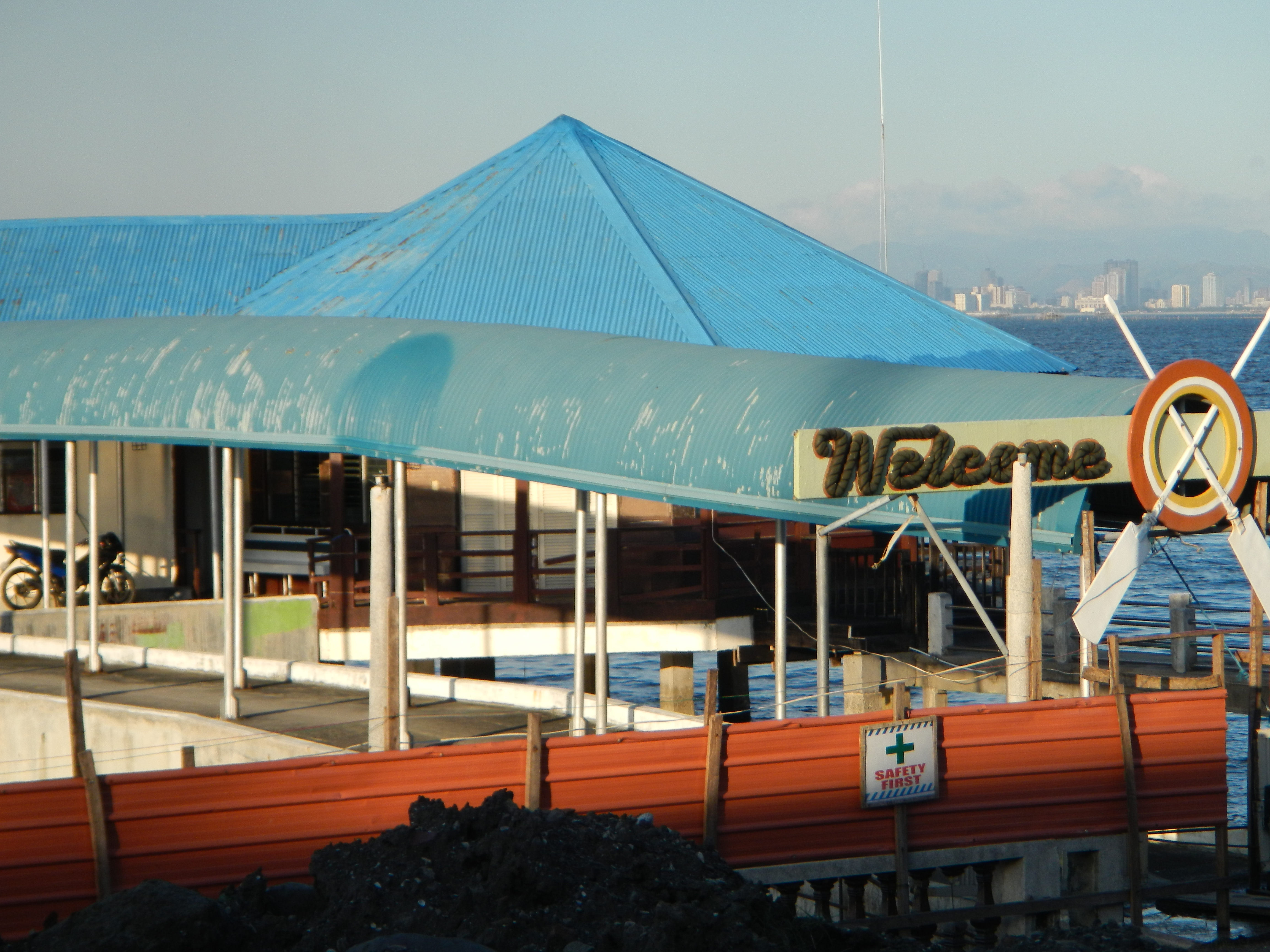 Upload Wizard photos of - Cavite City [1] Hall Complex, its glorious interior, facade, and the New Cavite City Hall being built 20%, the Busts, Monuments of Cavite City's Martys and Leaders, and a view from the 2nd floor of the City Hall is the insolvent Metro Star Ferry facilities, building, Manila Bay, Blue Sea and Sky the deepest Cavite Ocean, Manila Bay in Cavite City, Province of Batangas, [2]: these are Heritage and Cultural treasures of Cavite recognized by the NCCA and NHI.